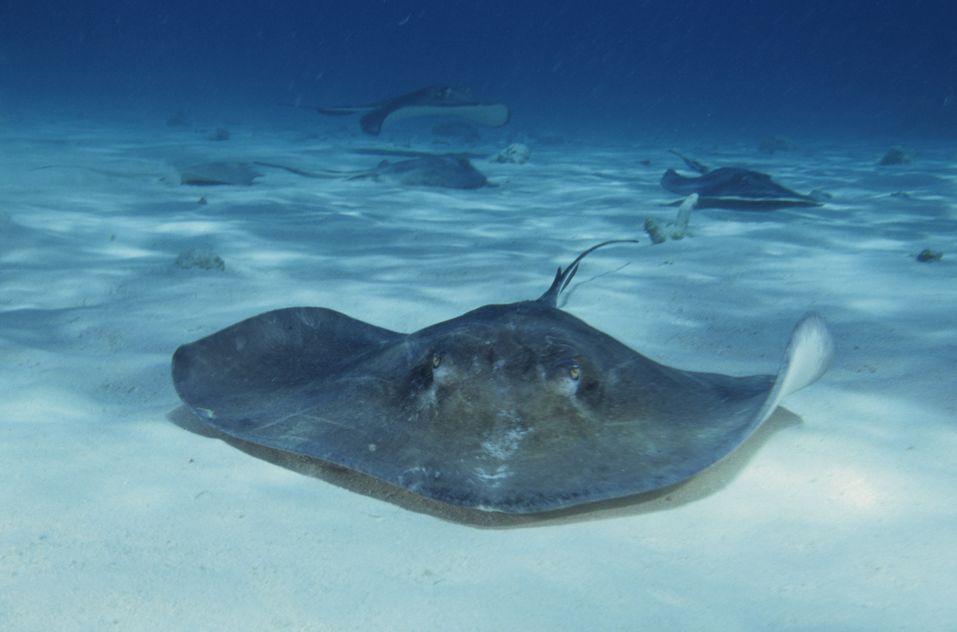 Southern stingrays (Dasyatis americana) at Stingray City